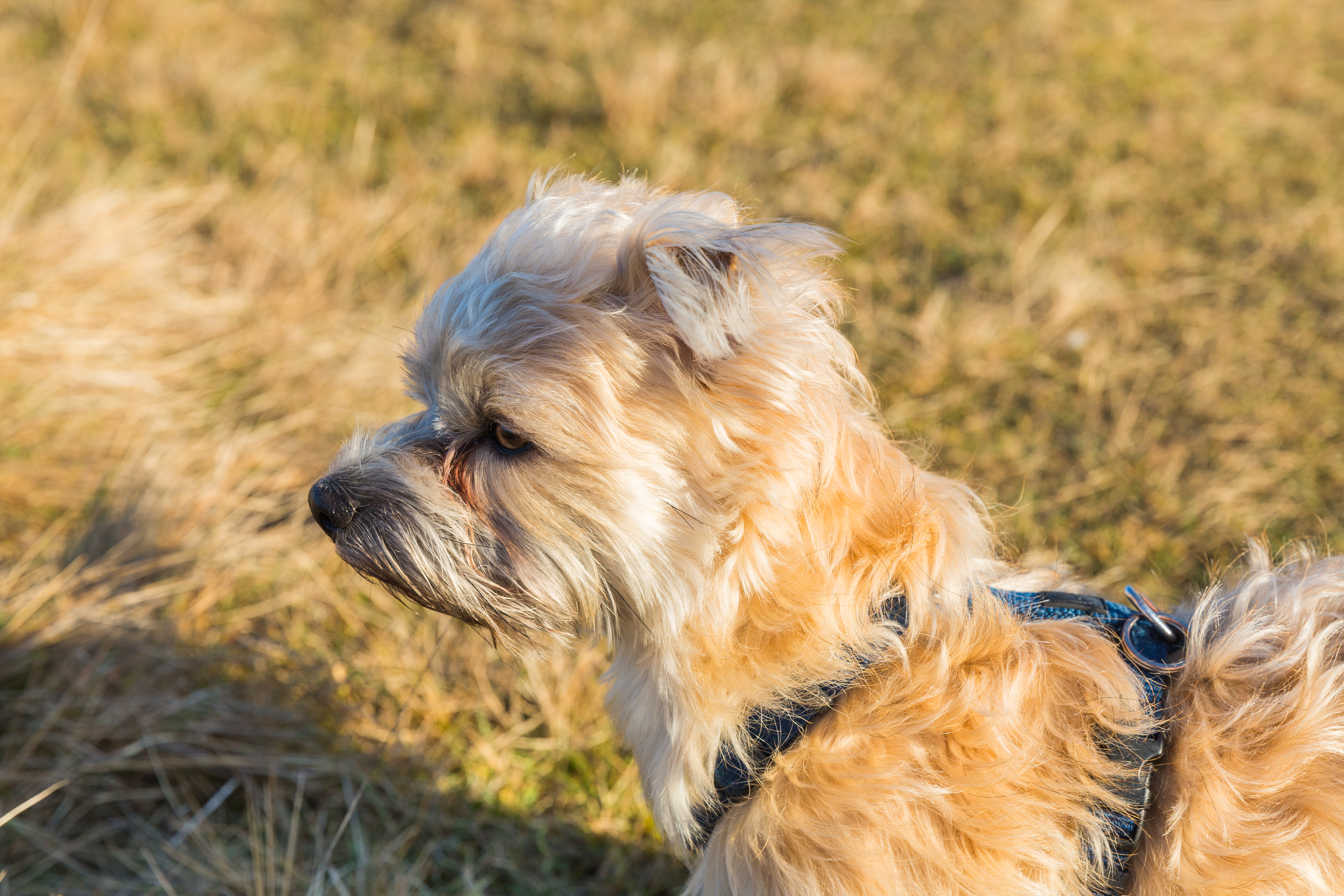 "Lucky" (2 years-old Maltese-Terrier Cairn hybrid) in the Panzerwiese, Munich, Germany